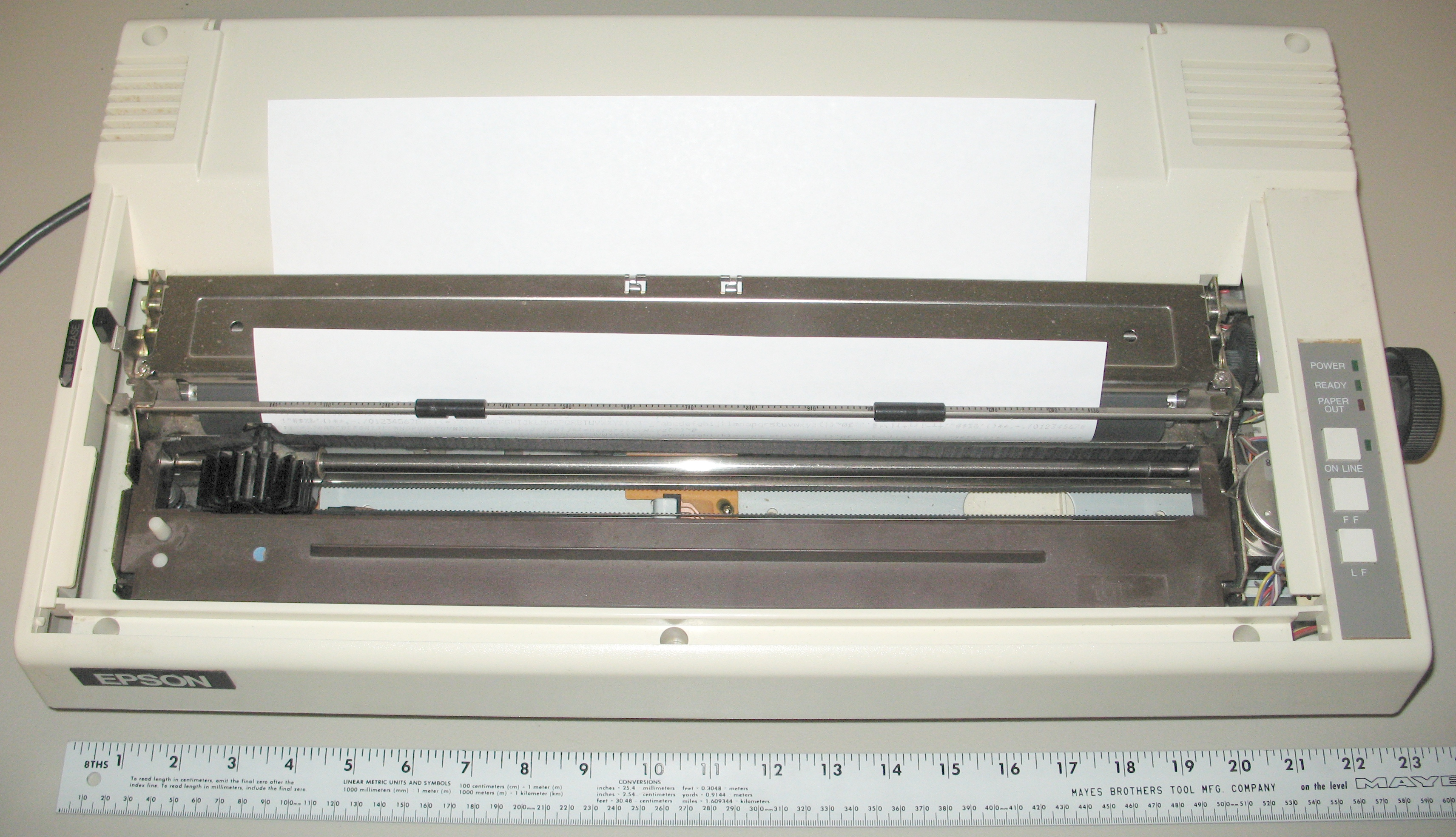 Epson Wide Carriage 9-pin printer - with legal paper 8.5x14, friction feed only